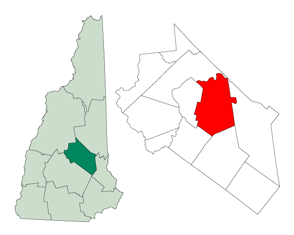 Map of a municipality in Belknap County, New Hampshire